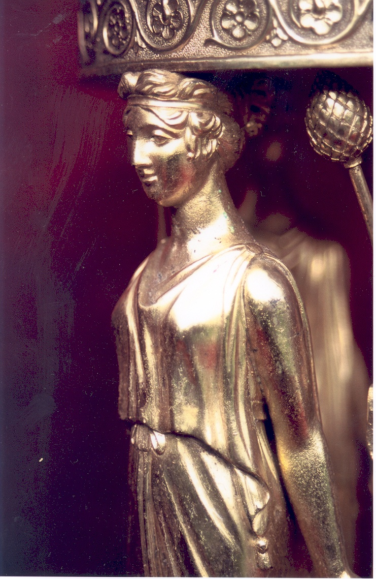 Caryatid on an 1812 dessert stand by Paul Storr of London Presented to William Fane De Salis Esqre / of Dawley Court and Teffont Manor / By the shareholders of the Chartered Bank of Australia / as a mark of their appreciation of his admirable conduct of their affairs / during the 22 years in which he occupied the position of / deputy chairman and chairman of that bank / 2nd June 1874 / Rundell Bridge et Rundell Aurifeces Principis Wallie 527